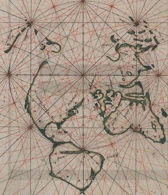 Polar planisphere in anonymous Portuguese atlas bound together with the Livro de Marinharia signed in 1514 by João de Lisboa (1470-1525)